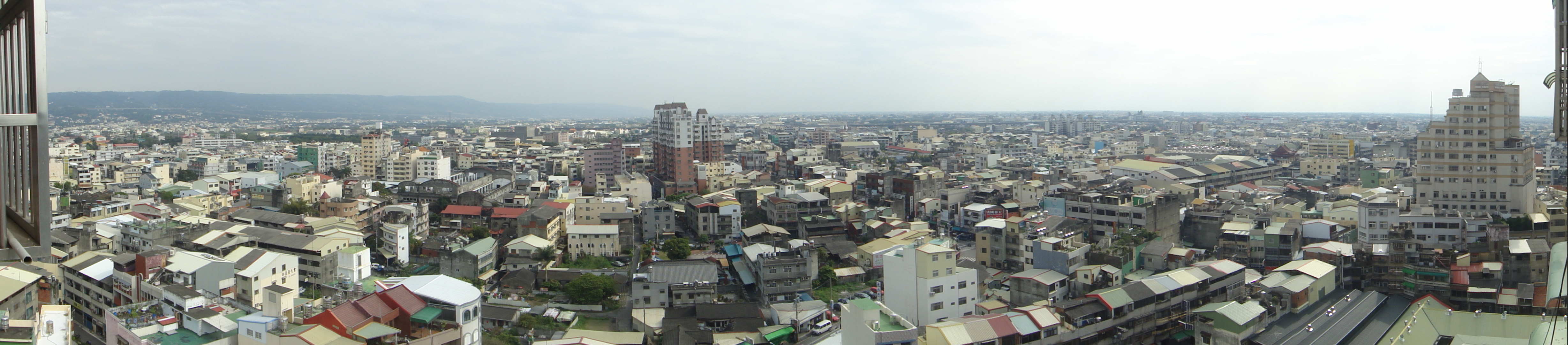 A Picture I took of Yuanlin, Zhanghua Taiwan.中文（台灣）: 員林全景圖。